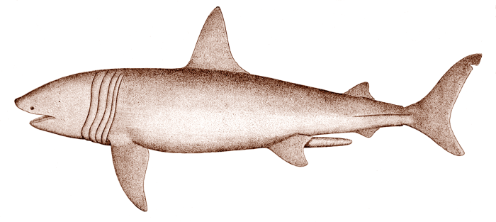 Male Basking Shark (Cetorhinus maximus).